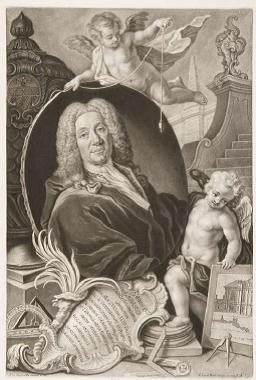 Gabriel de Gabrieli